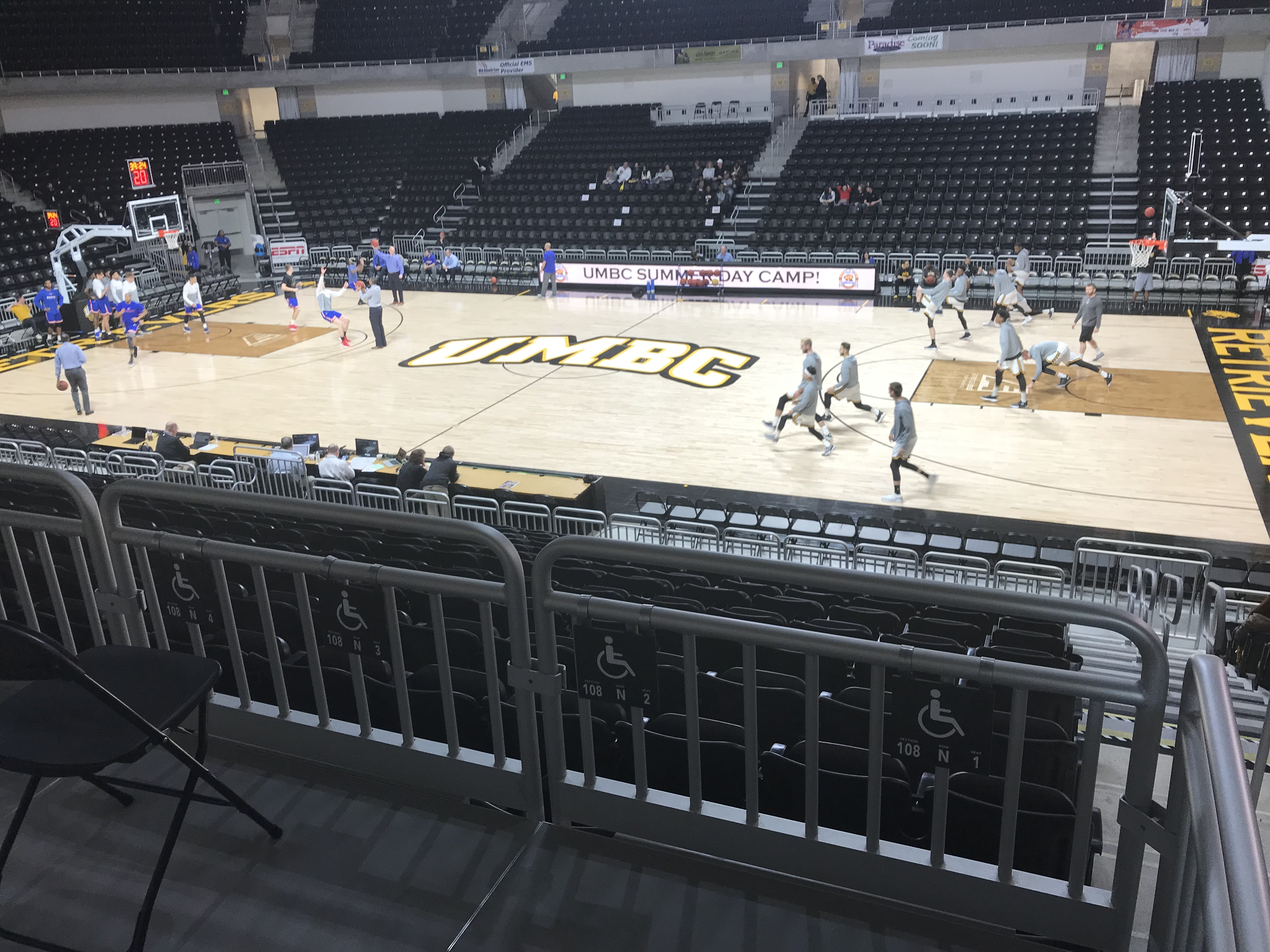 The interior of the UMBC Event Center.